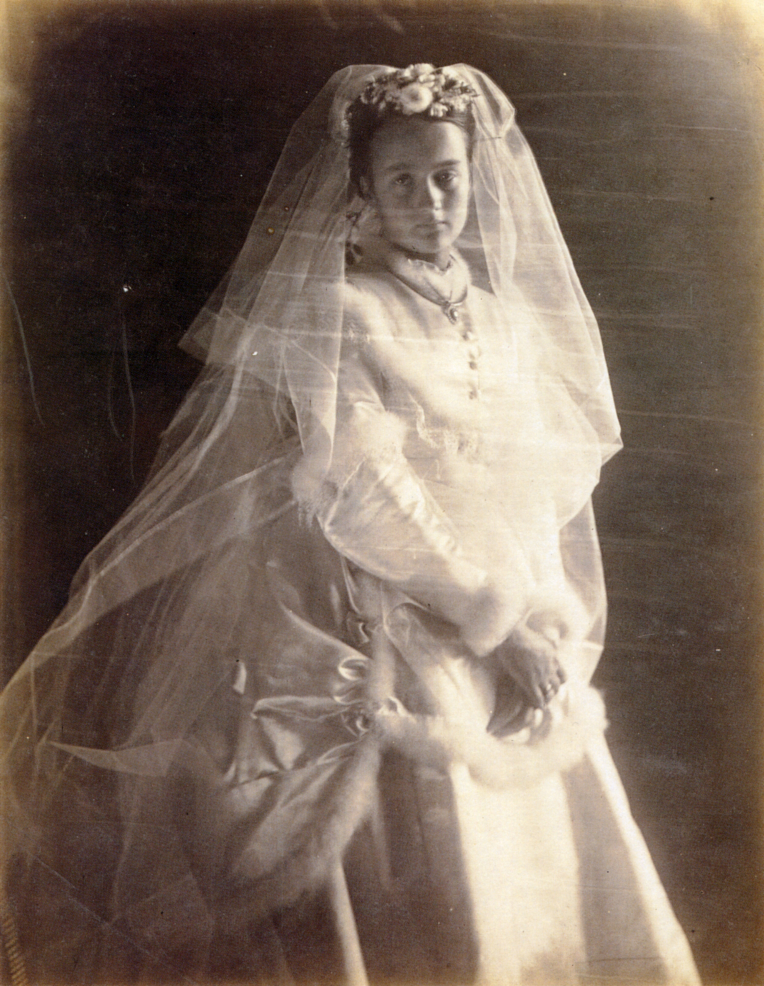 The Bride. Model is Annie Chinery (Mrs. Ewen Cameron). Albumen print, 323 x 250mm (12 3/4 x 9 7/8").